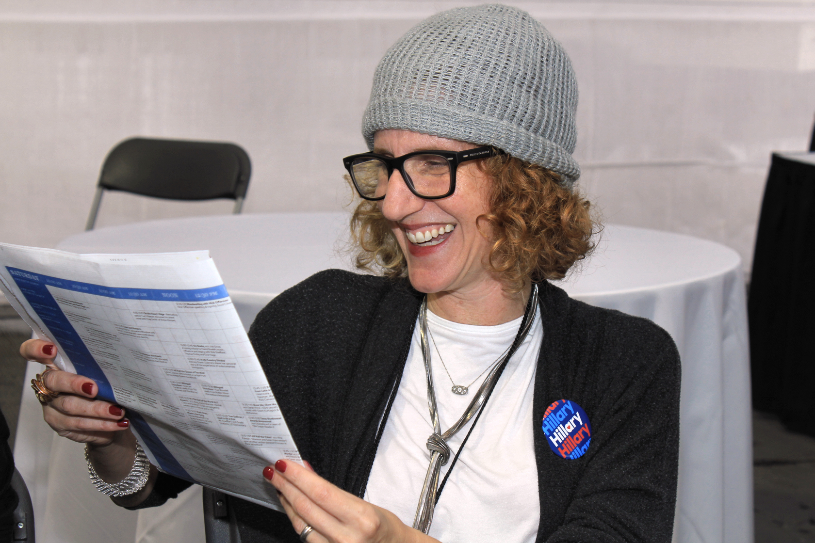 Author Gayle Forman at the 2016 Texas Book Festival.